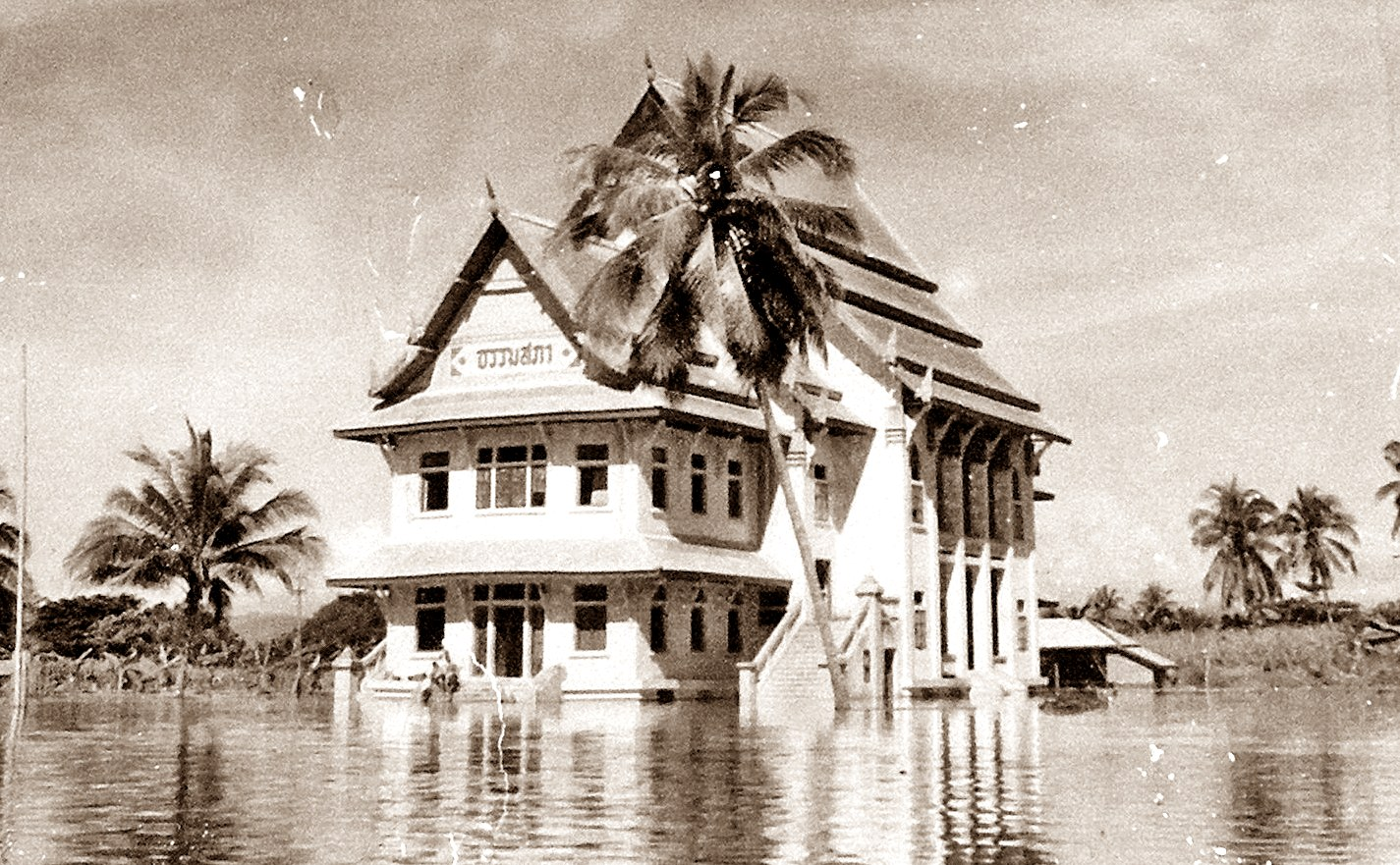 Wat Thammathippatai (dharma pavilion) in 1950Location: Wat Thammathippatai Tha It subdistrict, Mueang Uttaradit, Uttaradit Province, Thailand.